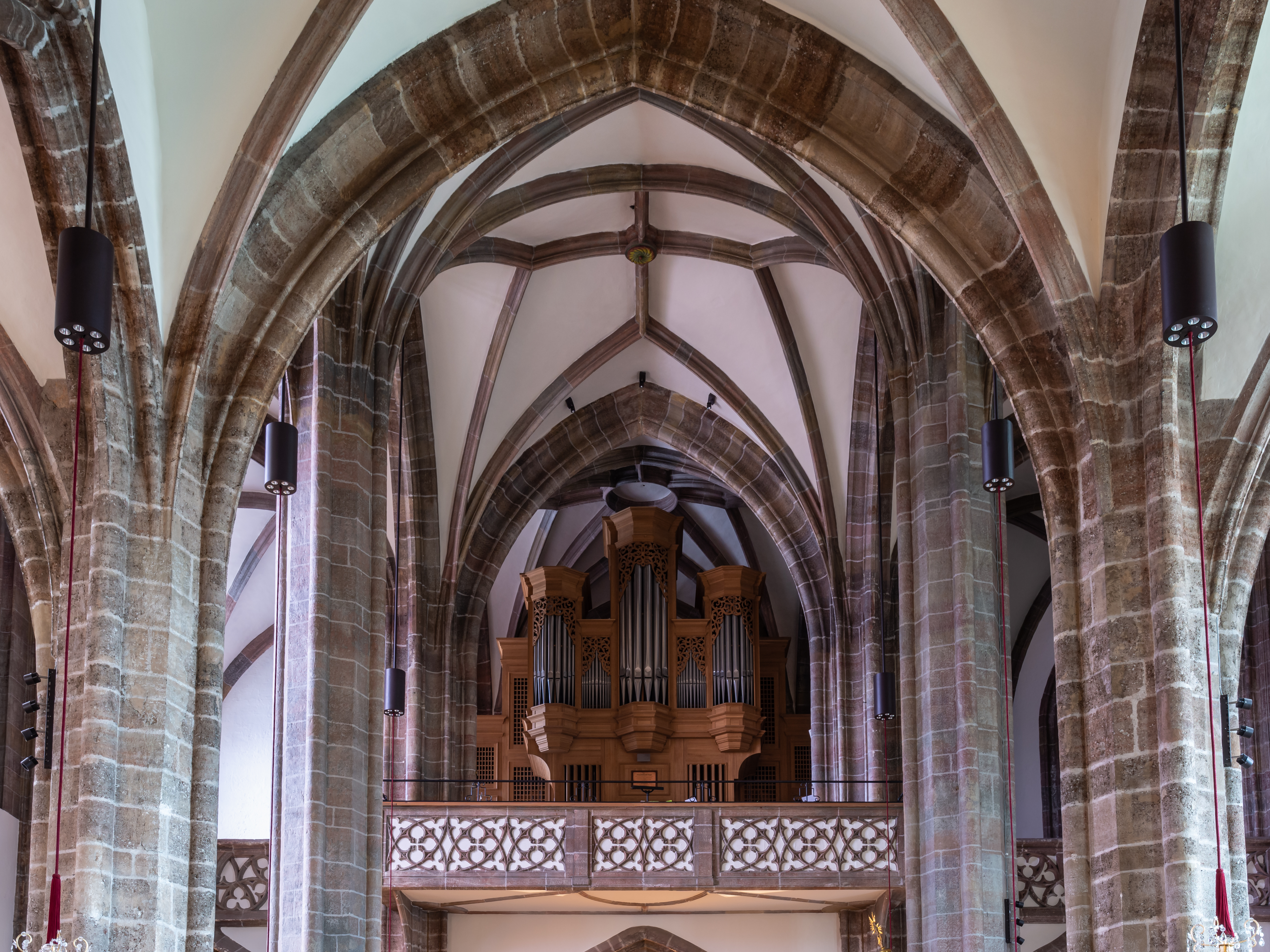 Pipe organ at the parish church Perchtoldsdorf, Lower Austria